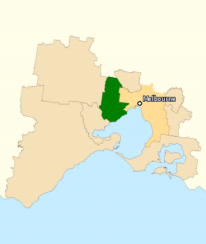 This image incorporates data that is: © Commonwealth of Australia (Australian Electoral Commission) 2009 Division of Lalor 2010